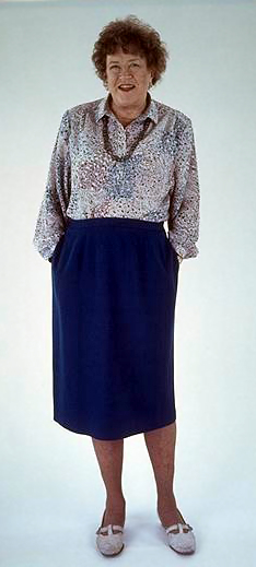 American cook, author, and television personality Julia Child (August 15, 1912 – August 13, 2004). depicted person: Julia Child (age: 76.17)